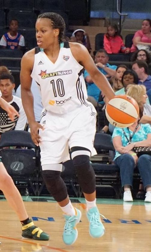 Epiphanny Prince at 2 August 2015 game